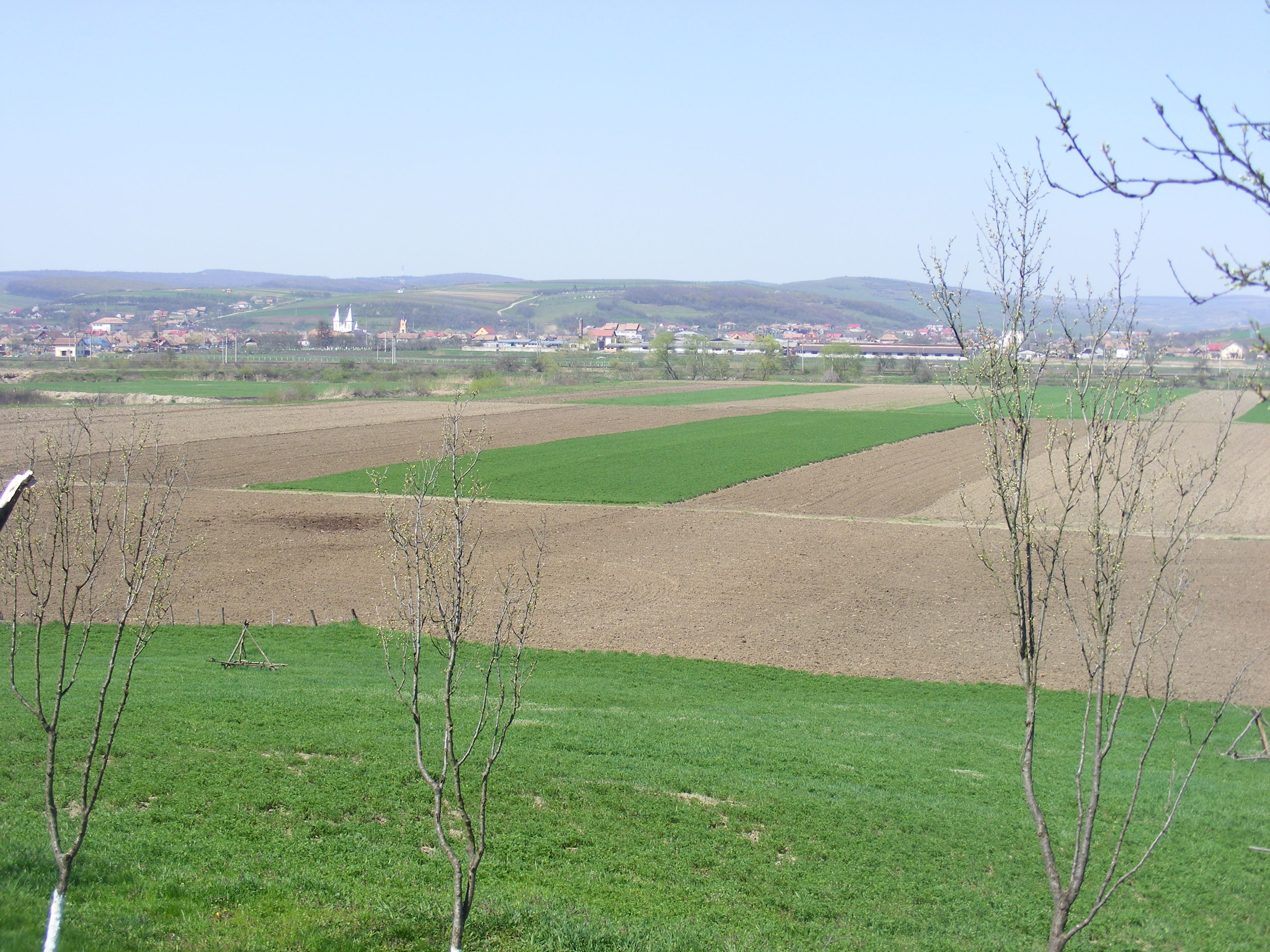 Wiev of Iclod, Romania, Cluj County